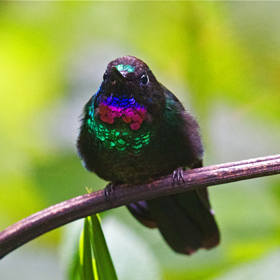 Tourmaline Sunangel photo taken at Guango Lodge (east slope), Ecuador.